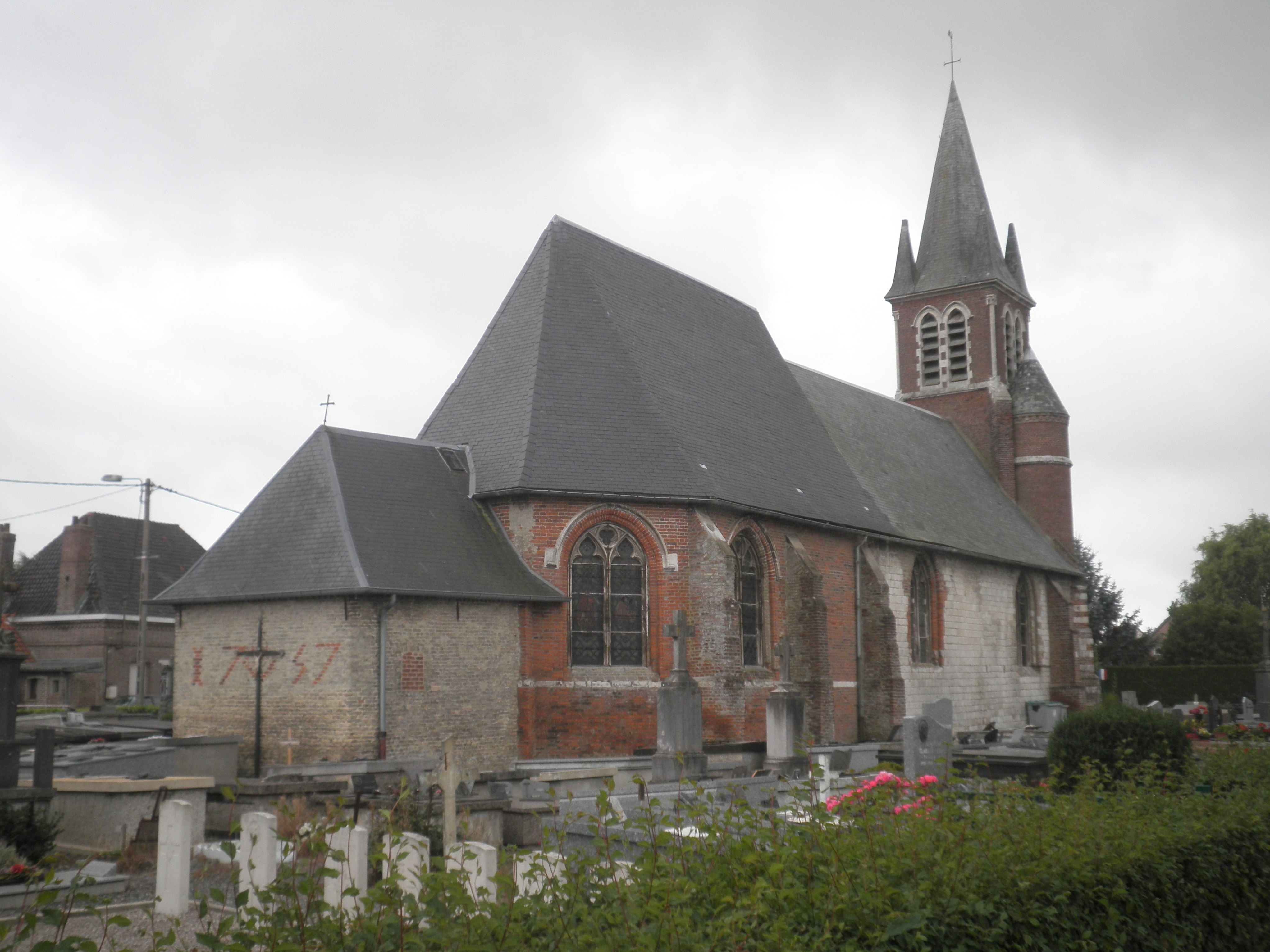 Saint Martin church in Campagne-lès-Wardrecques In the church graveyard, there are Commonwealth war graves. Seven British soldiers are buried there. They died in the 1rst and in the 2nd World War.